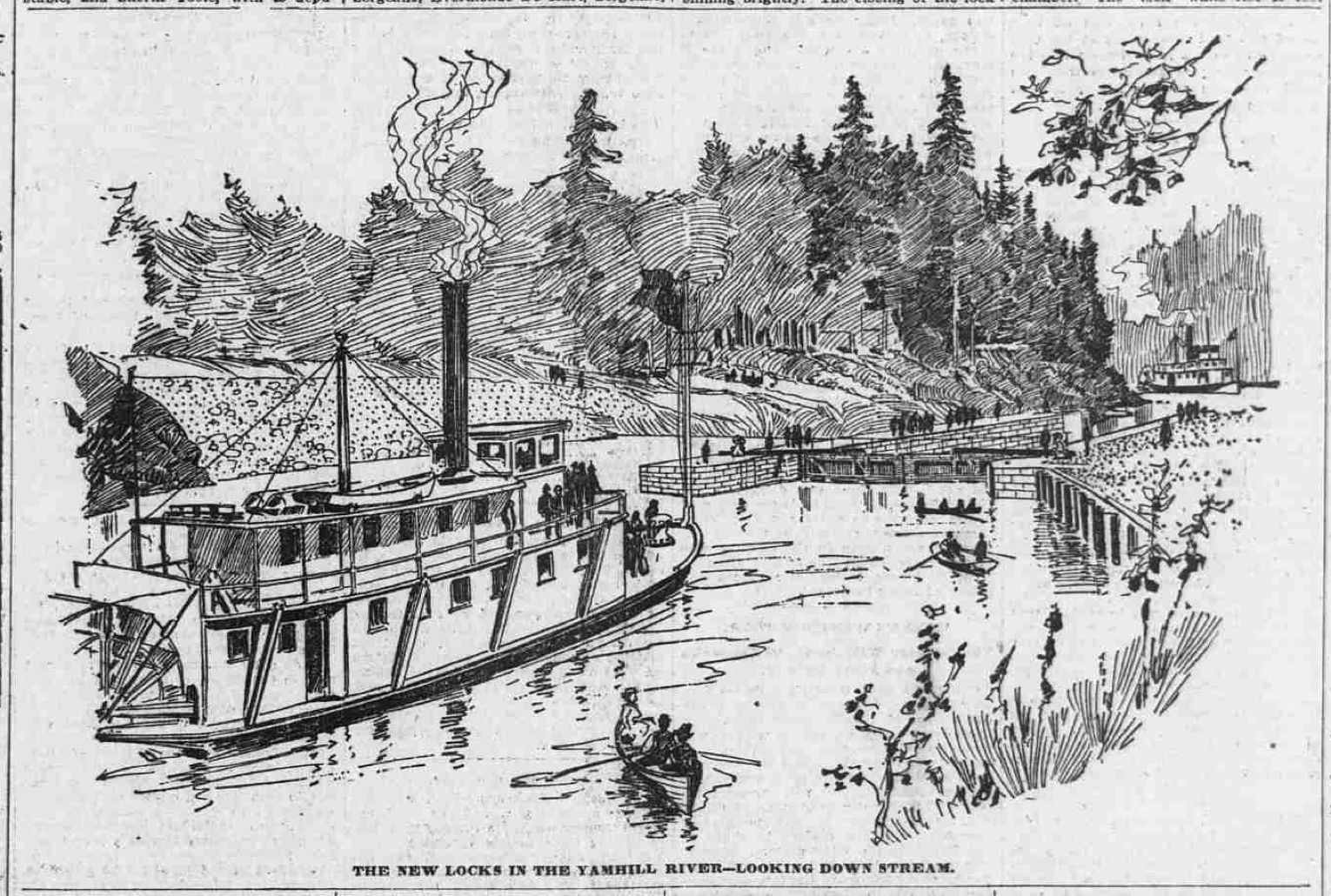 Sketch of the then newly opened Yamhill Locks, on the Yamhill River.